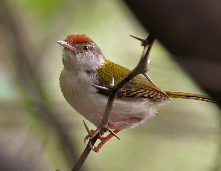 Common Tailorbird Orthotomus sutorius in Hyderabad , India.